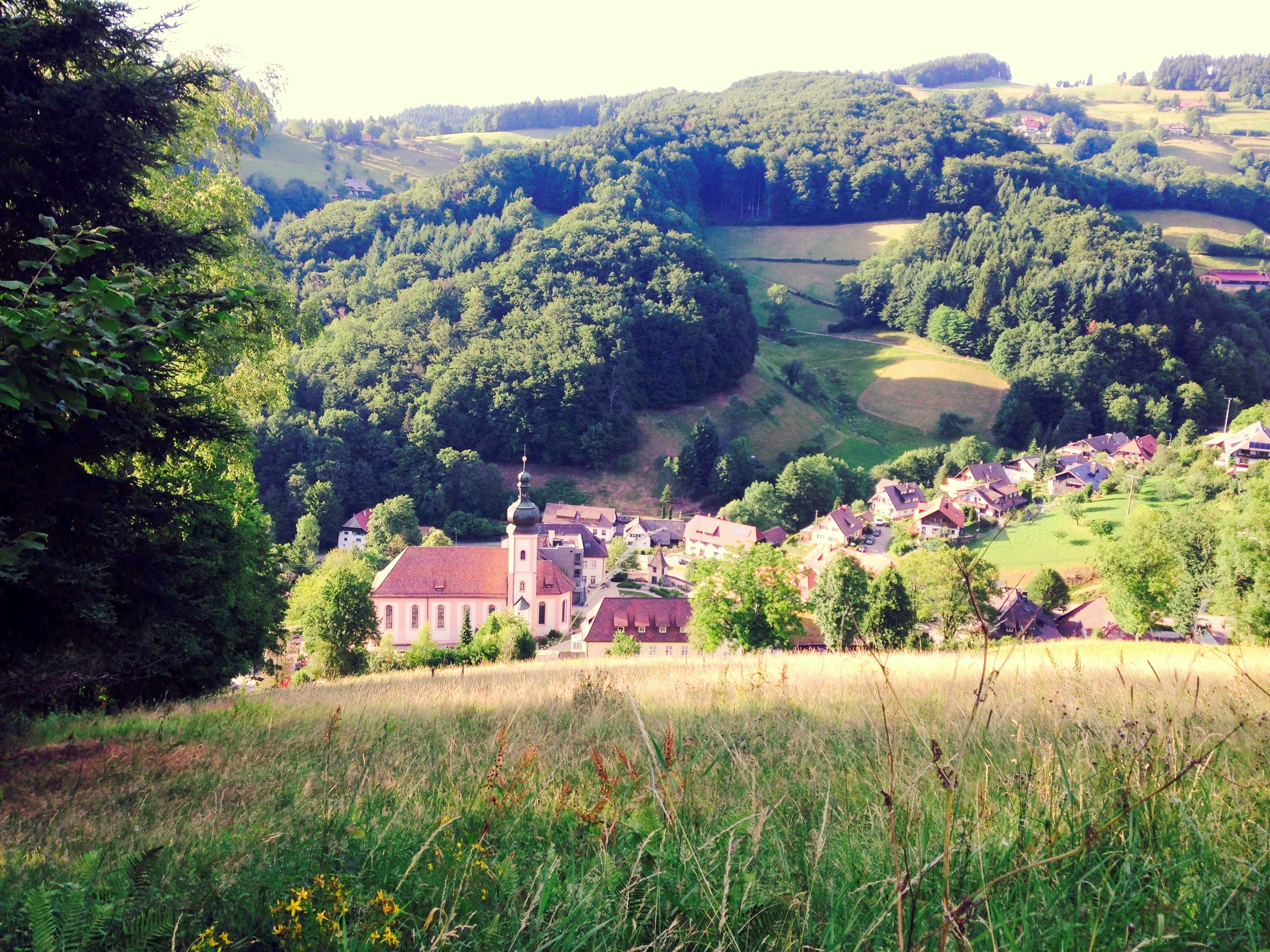 Widok na St. Ulrich w górnych piętrach doliny Möhlintal, na pierwszym planie kościół Piotra i Pawła (Pfarrkirche St. Peter und Paul).